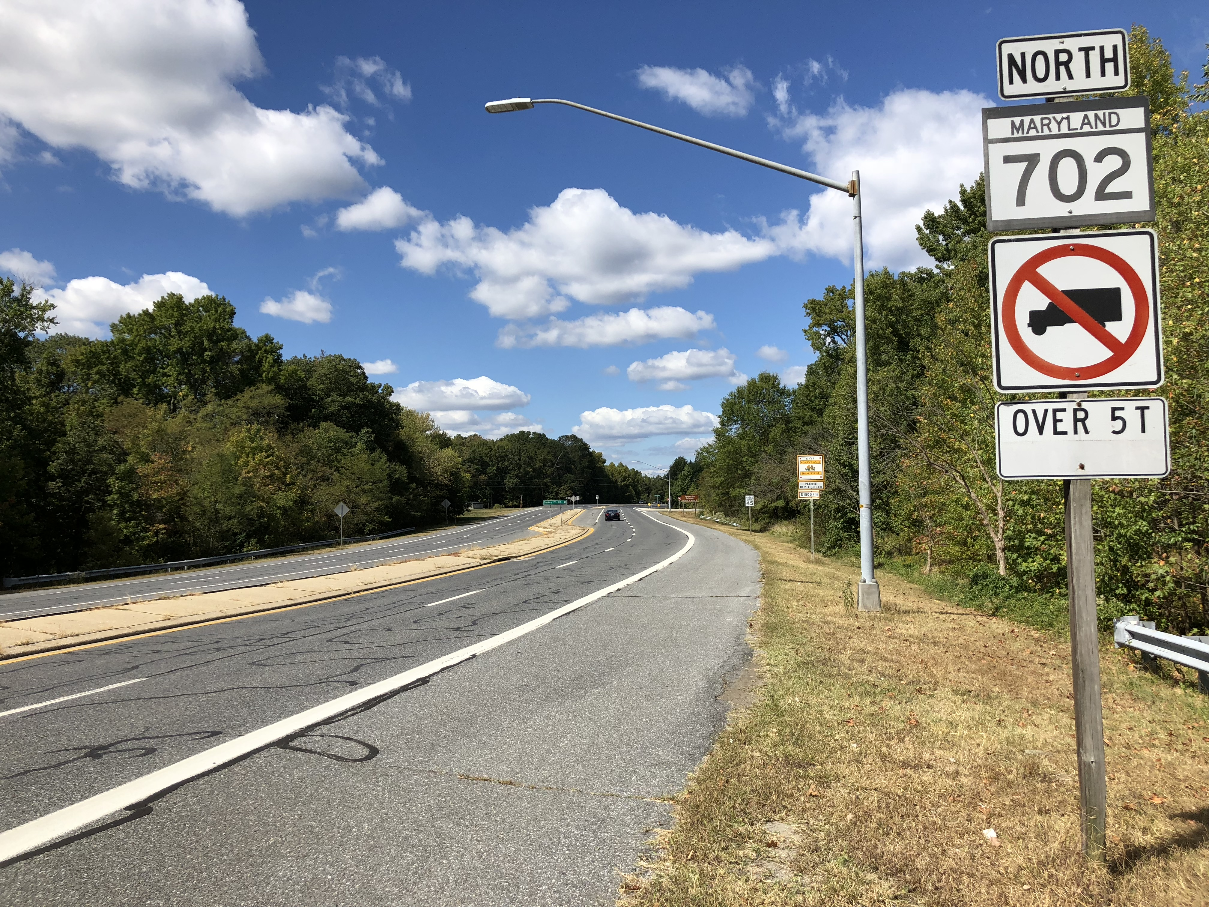 View north along Maryland State Route 702 (Southeast Boulevard) at Back River Neck Road in Essex, Baltimore County, Maryland